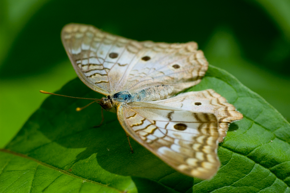 Shot at the Minnesota Zoo Butterfly Exhibit. Image of a White Peacock. Copyright © 2004-2006 April M. King, aka Marumari, donated to Wikipedia under the GFDL.